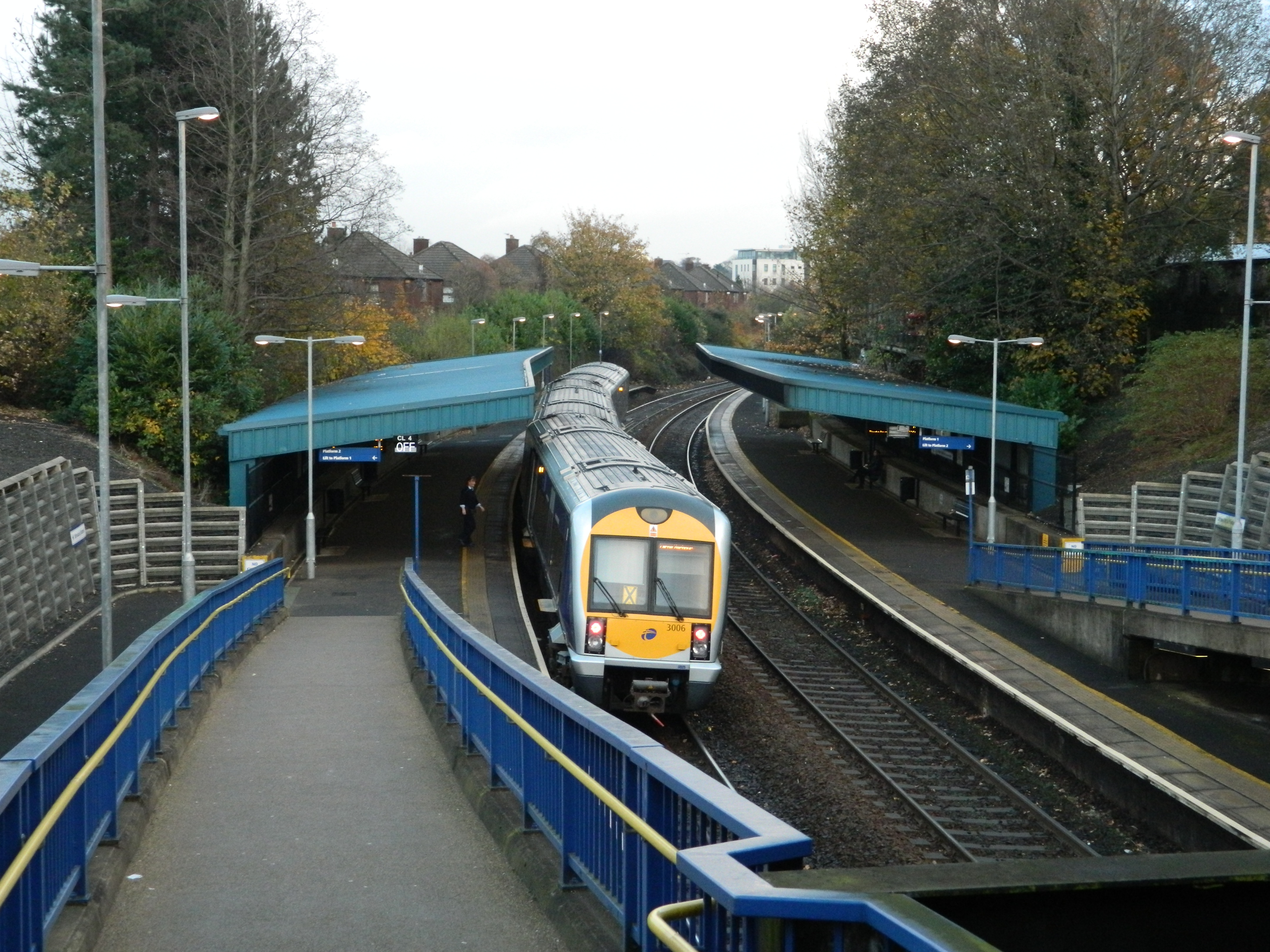 Botanic railway station, Belfast